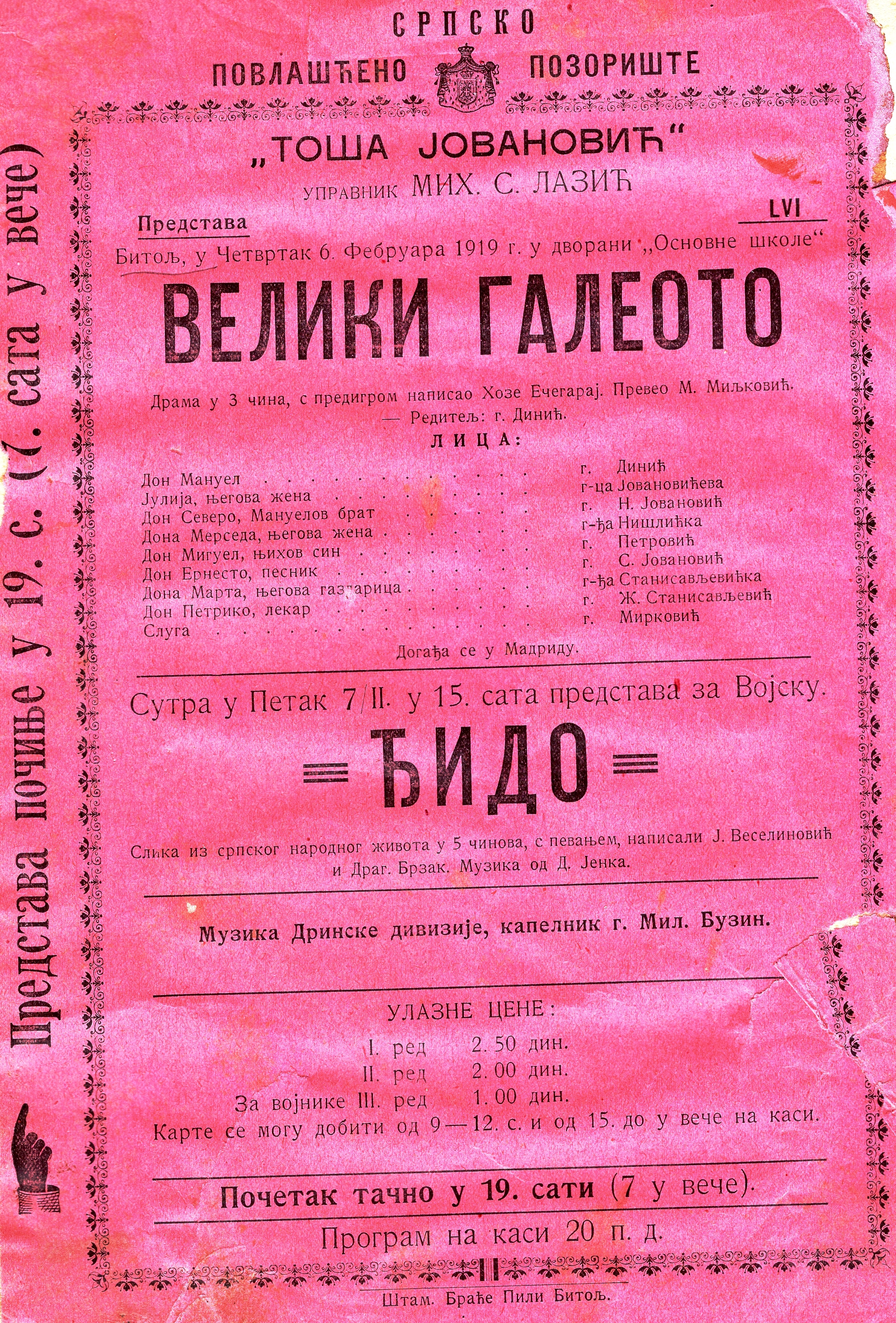 A programme for the show "El Gran Galeoto" in Bitola, 6 and 7 February 1919, People's Theater 'King Aleksandar I'. This media file is produced by Wikipedian in Residence in Category:Wikipedian in Residence at DARM in 2017.